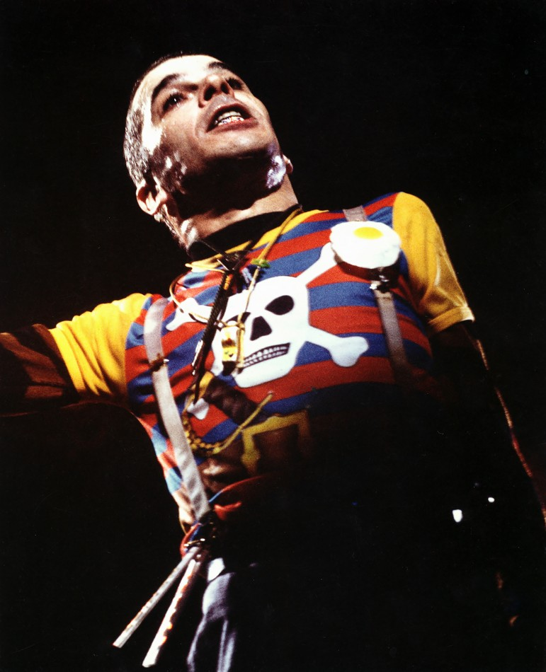 Ian Dury in concert 1978